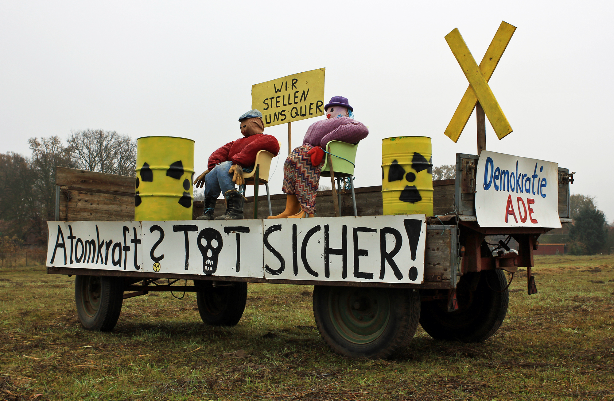 Creative expression of protest by the population in the Wendland (district Lüchow-Dannenberg) against German nuclear policy, the annual "Castor" transports to interim storage facility for German highly radioactive nuclear waste and the plans for a repository for highly radioactive nuclear waste in the salt dome Gorleben-Rambow. The photo was taken near the village Splietau.